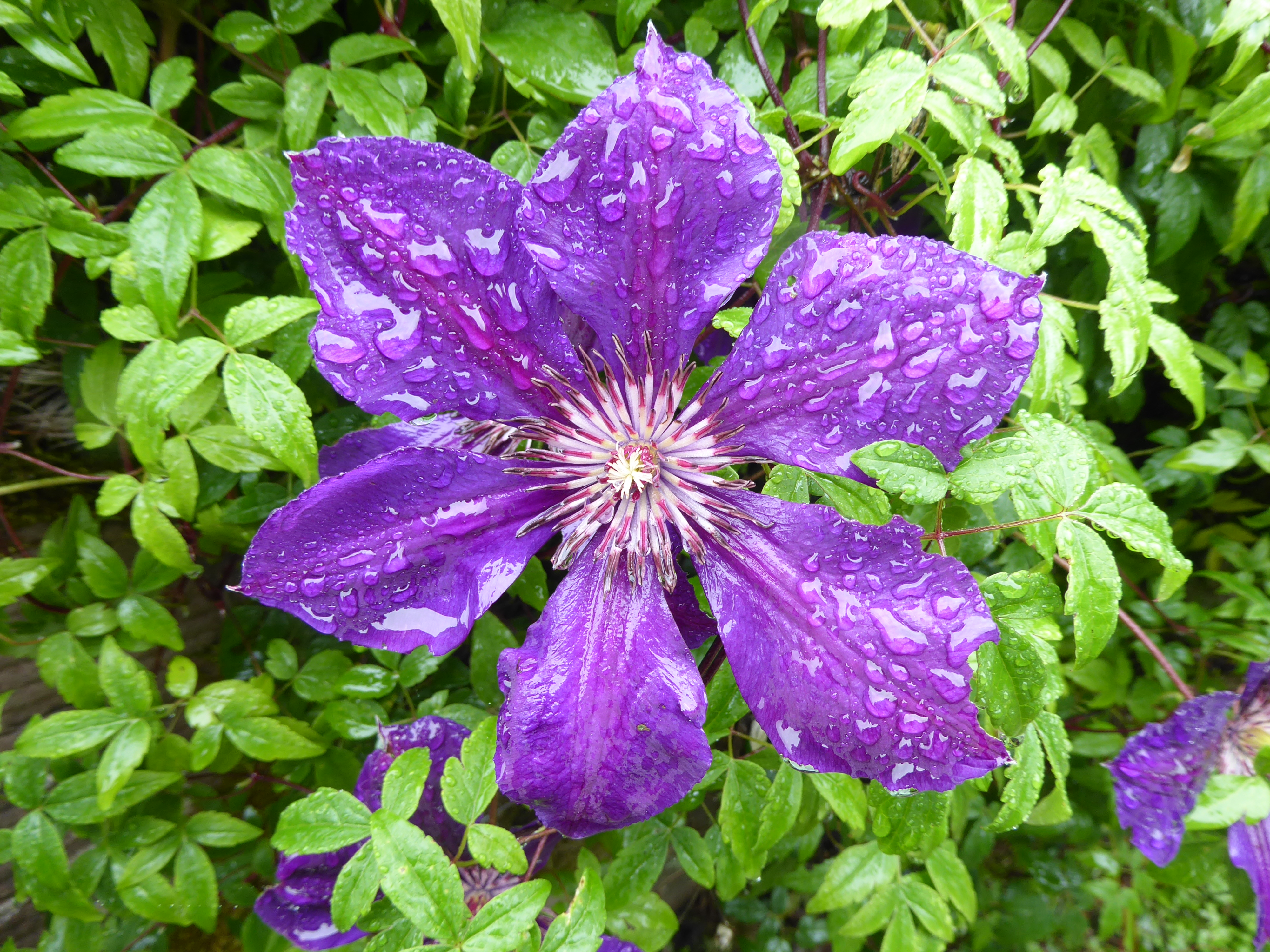 Clematis x jackmanii in the park of Scone Palace (Scotland)